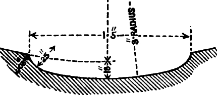 Diagram depicting "Woolwich" rifling groove for RML guns, as implemented in 1865 for 7-inch gun.